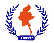 Logo of the UNFC.